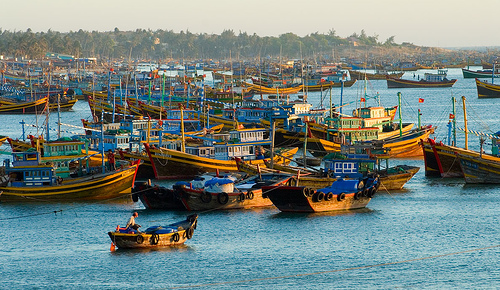 Mui Ne, Vietnam.